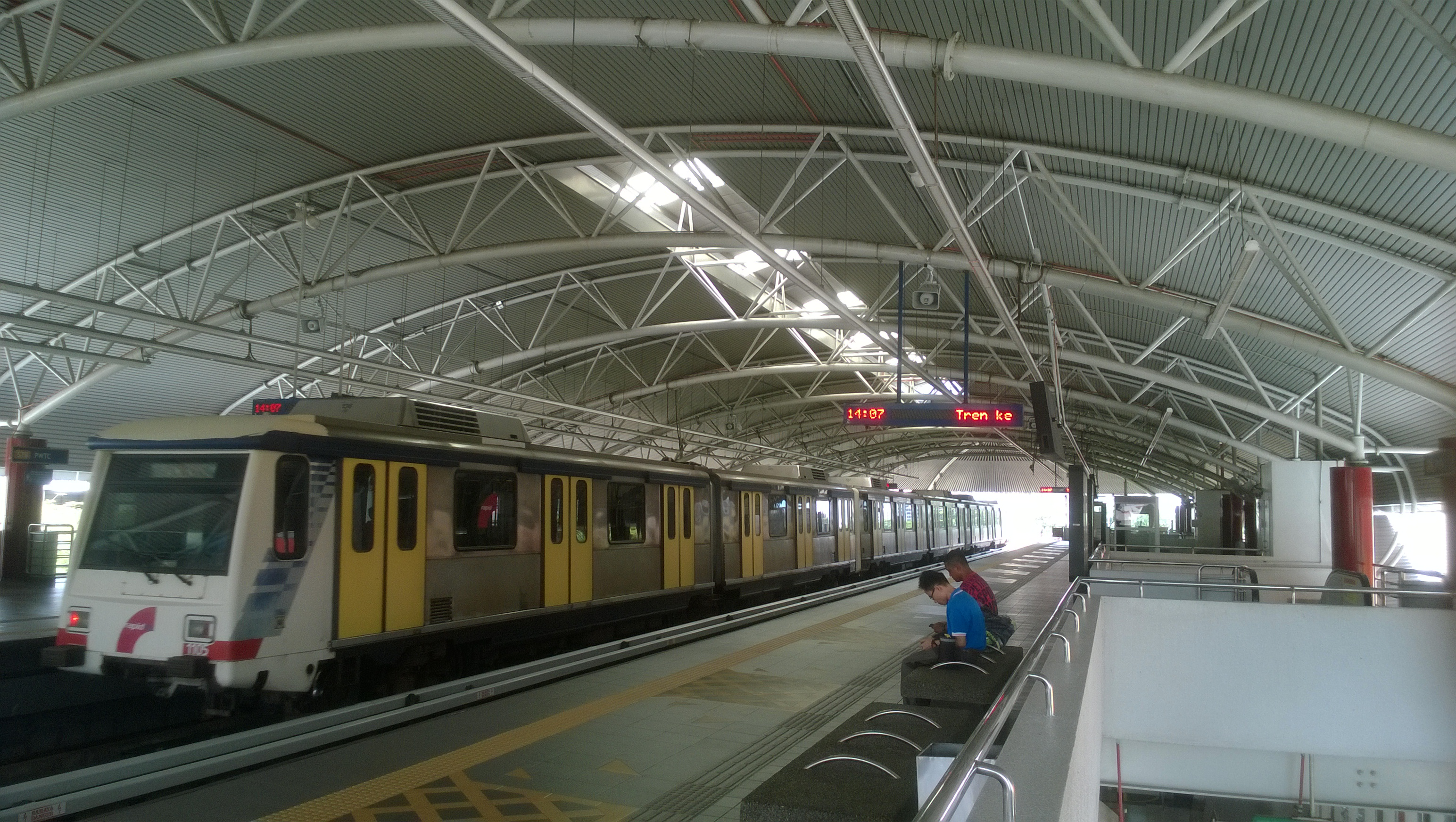 The platform level of the PWTC LRT station.